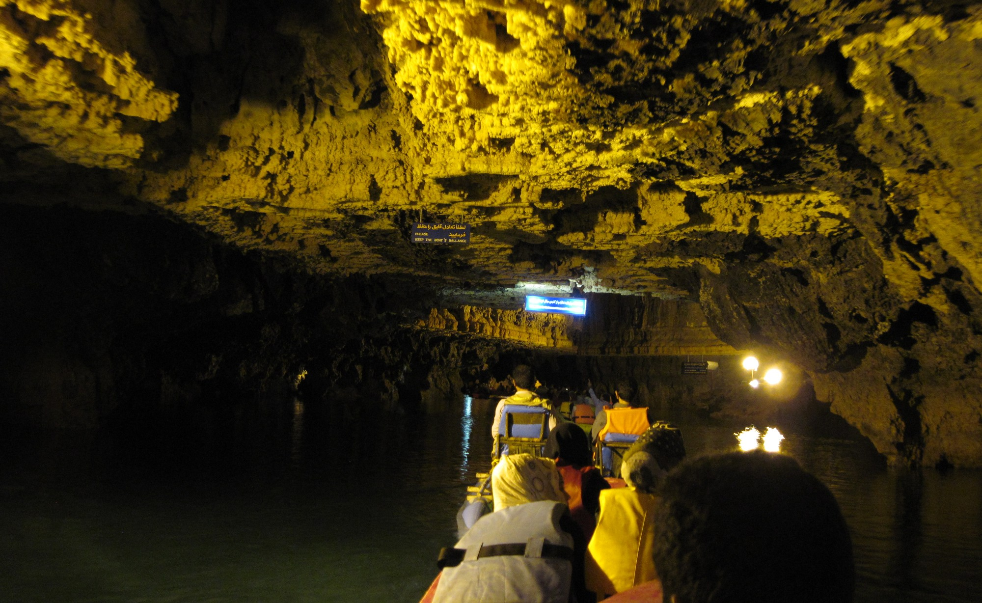 Alisadr cave, Near Hamadan, Iran. 35.2915193N 48.2901483E